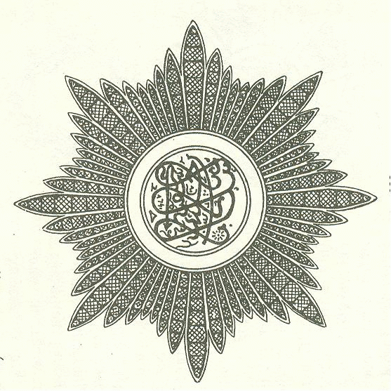 Order of Zanzibar